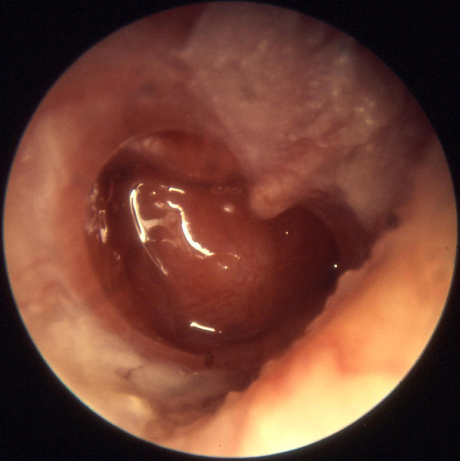 Otitis media chronica mesotympanalis